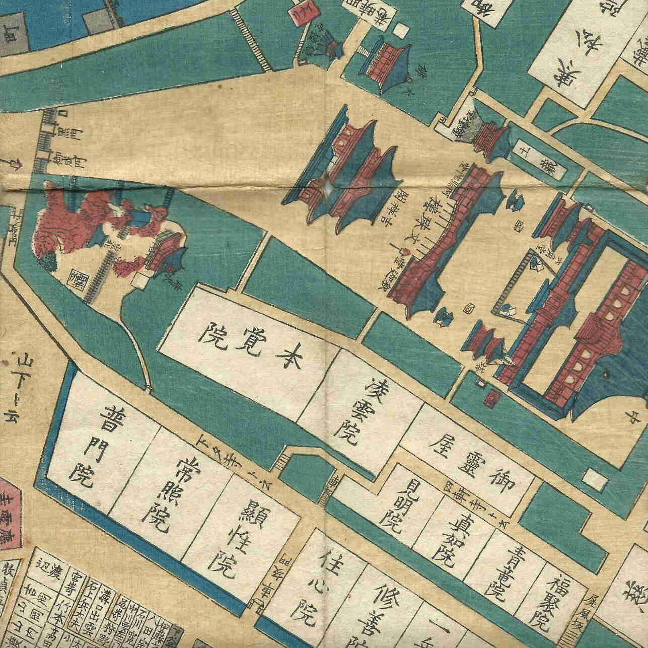 detail from borough-map Shitaya Edo